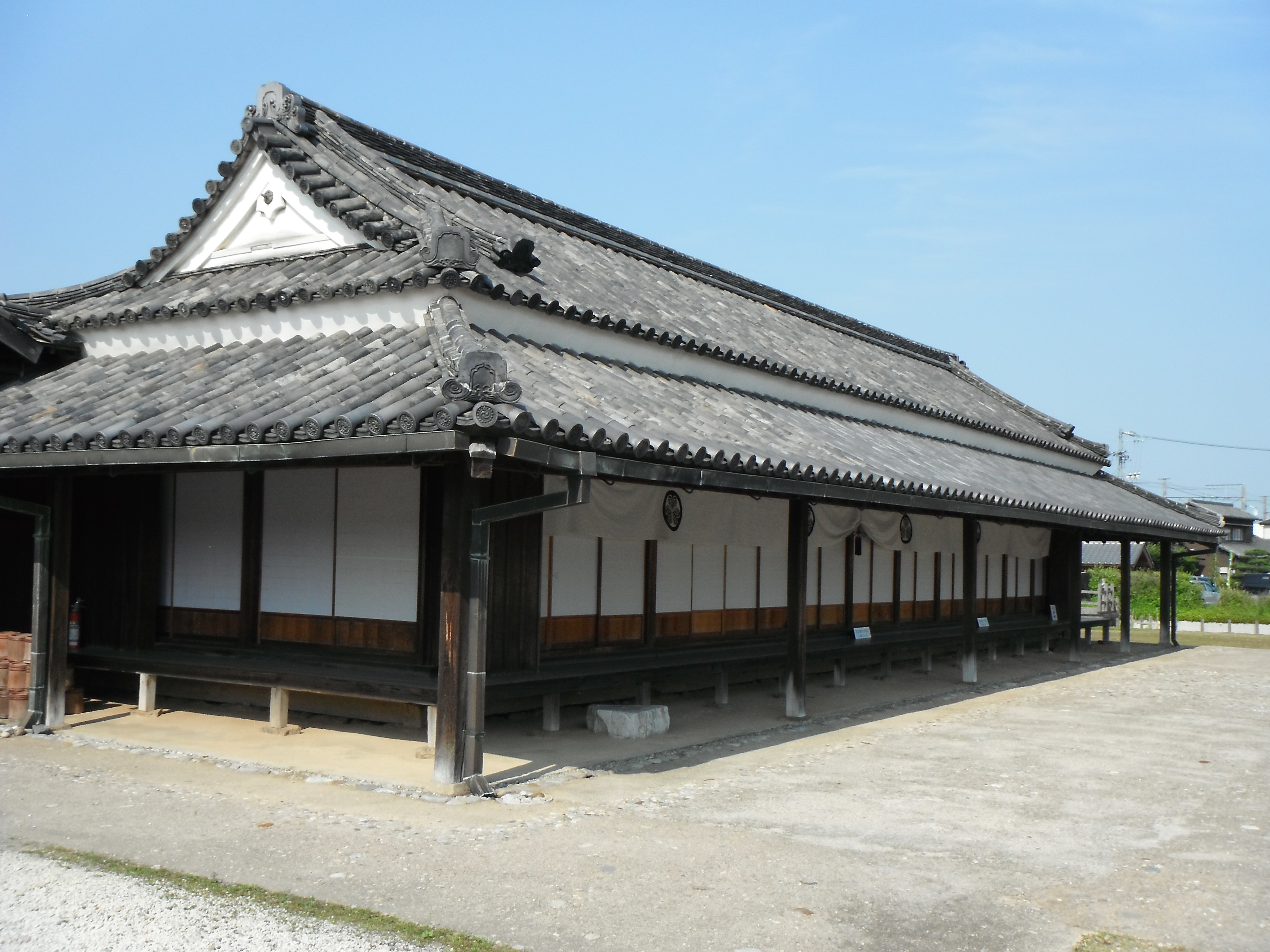 Arai Checking Station